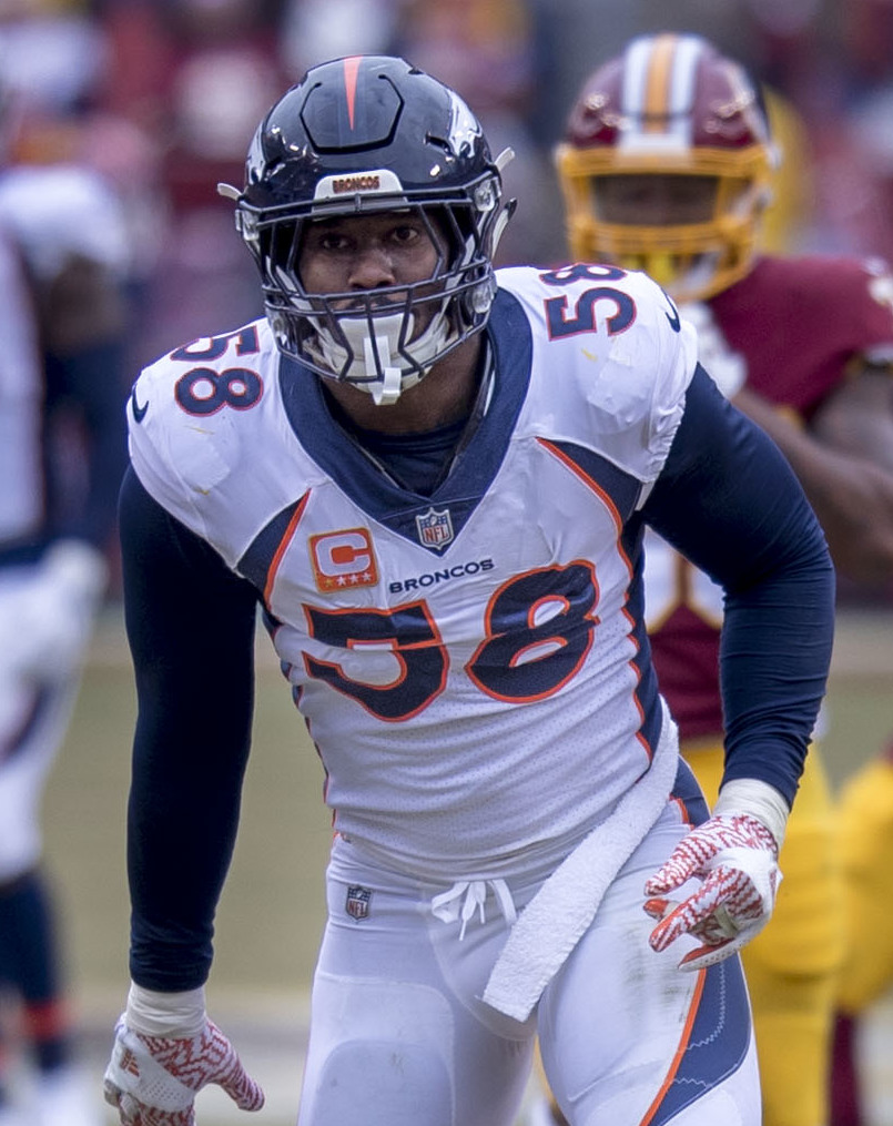 Broncos at Redskins 12/24/17